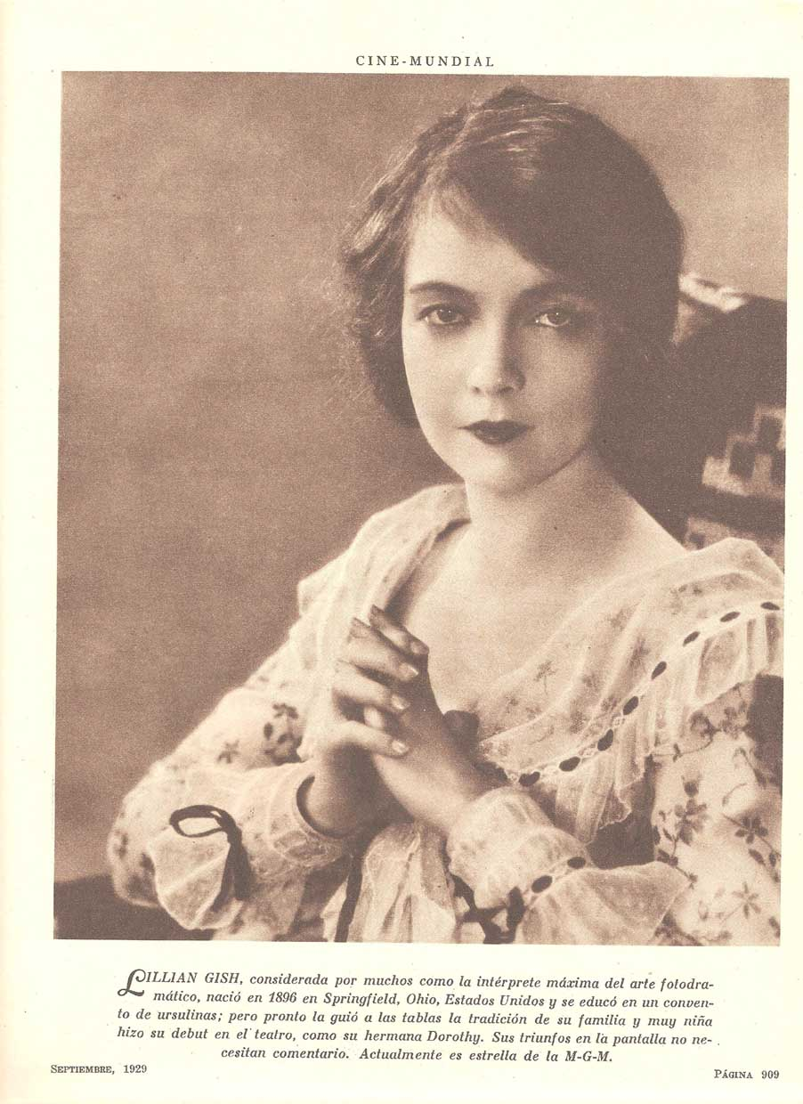 Publicity photo of Lillian Gish for Argentinean Magazine. (Printed in USA)